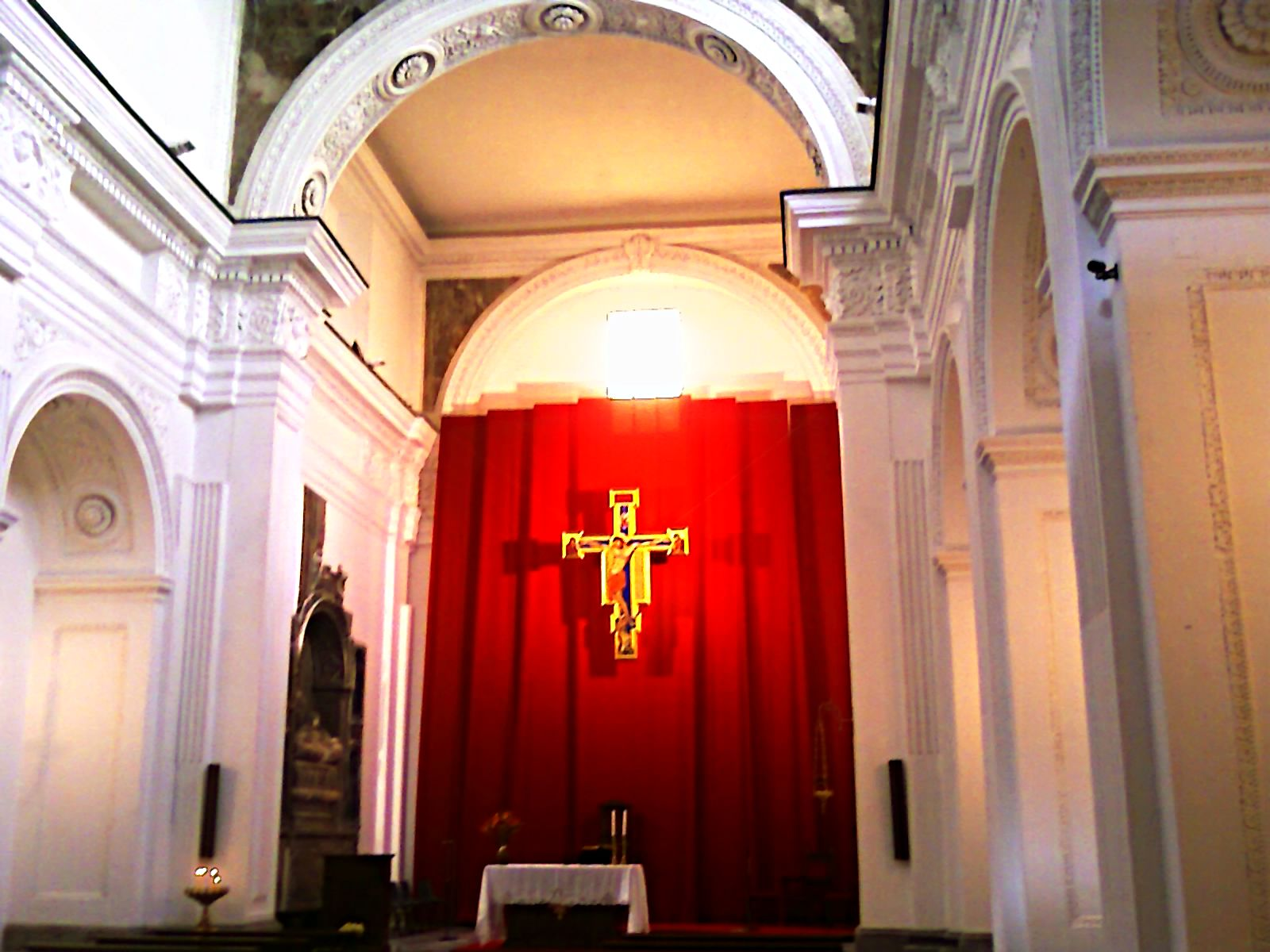 Inside